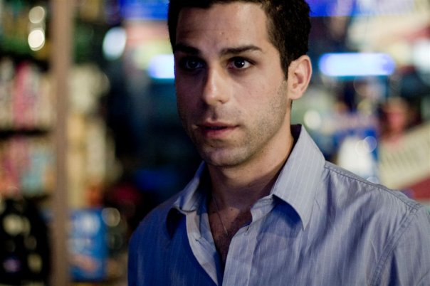 Ido Mosseri